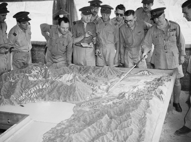 AWM caption : PORT MORESBY, NEW GUINEA. 1943-09-13. GENERAL SIR THOMAS BLAMEY GBE, KCB, CMG, DSO, ED (8), COMMANDER-IN-CHIEF, ALLIED LAND FORCES, SOUTH WEST PACIFIC AREA, GIVING A PRESS CONFERENCE AT HEADQUARTERS, NEW GUINEA FORCE. SHOWN: UNIDENTIFIED MR HAYDON LENNARD (1) MR H. EATHER, S.P.C. CENSOR (1A) MR G. WILLIAMS, AUSTRALIAN BROADCASTING COMMISSION (2) MR J. HENRY, REUTERS (3) MR A. OLSEN, MELBOURNE "ARGUS" (4) MR F. ROBINSON, INTERNATIONAL NEWS SERVICE (5) MR H. DASH, SYDNEY TELEGRAPH (6) MR D. LEGGETT, AUSTRALIAN BROADCASTING COMMISSION (7) GENERAL SIR THOMAS BLAMEY (8).